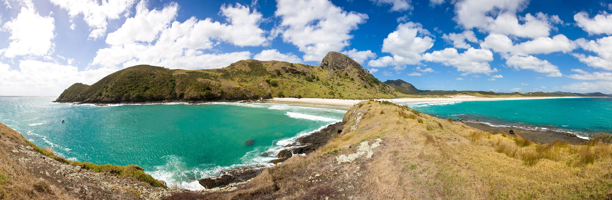 View of Spirits Bay (right) from the eastern end, showing the stretching golden 12km long beach, and Te Karaka Bay (left).